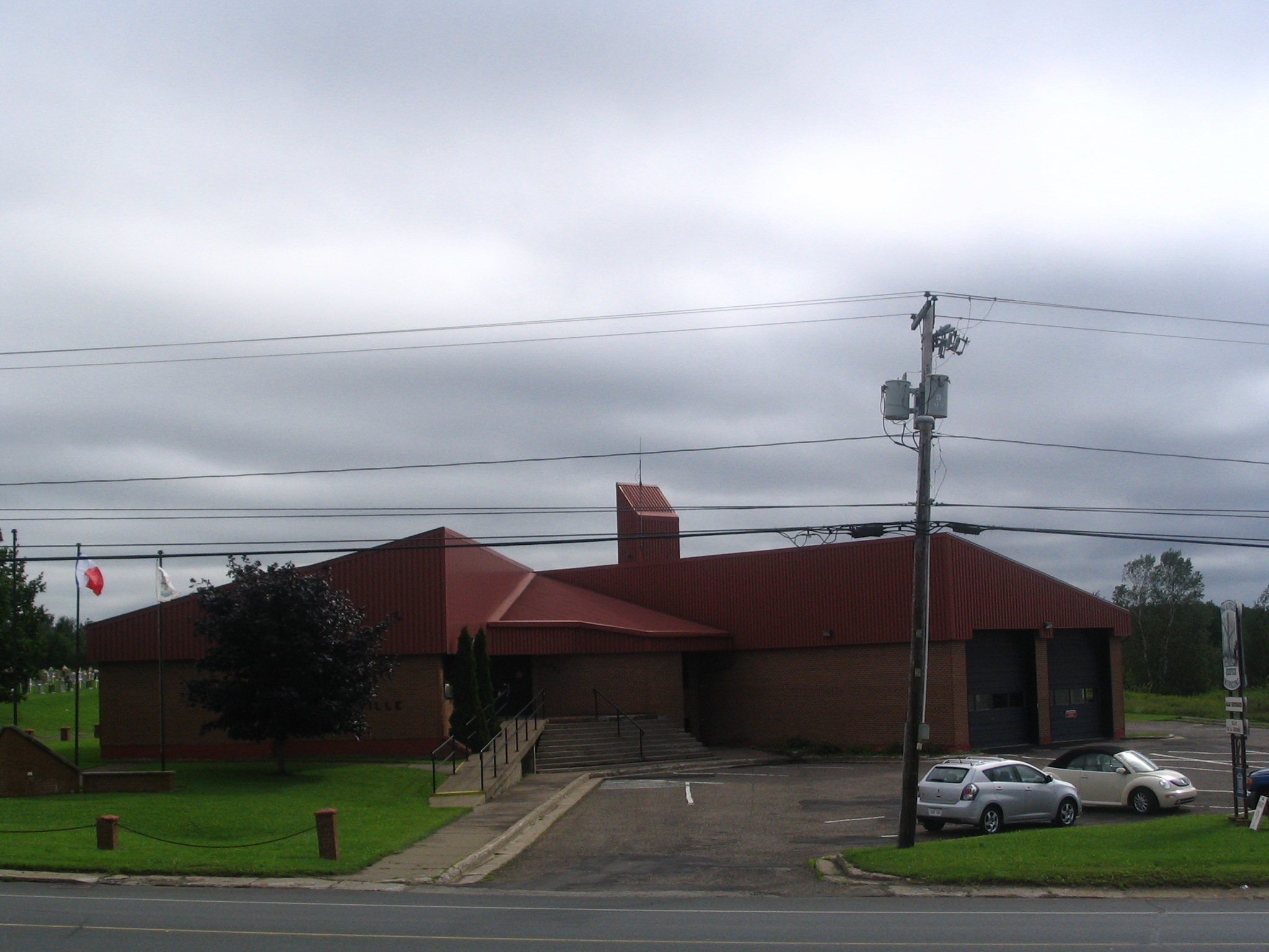 The town hall of Paquetville, New Brunswick, Canada.